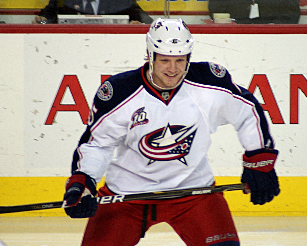 Derek Dorsett, born December 20, 1986, in Kindersley, Saskatchewan, is a Canadian hockey player currently with the Columbus Blue Jackets of the National Hockey League. This NHL game action photo was taken December 13, 2010 at the Scotiabank Saddledome in Calgary, Alberta.